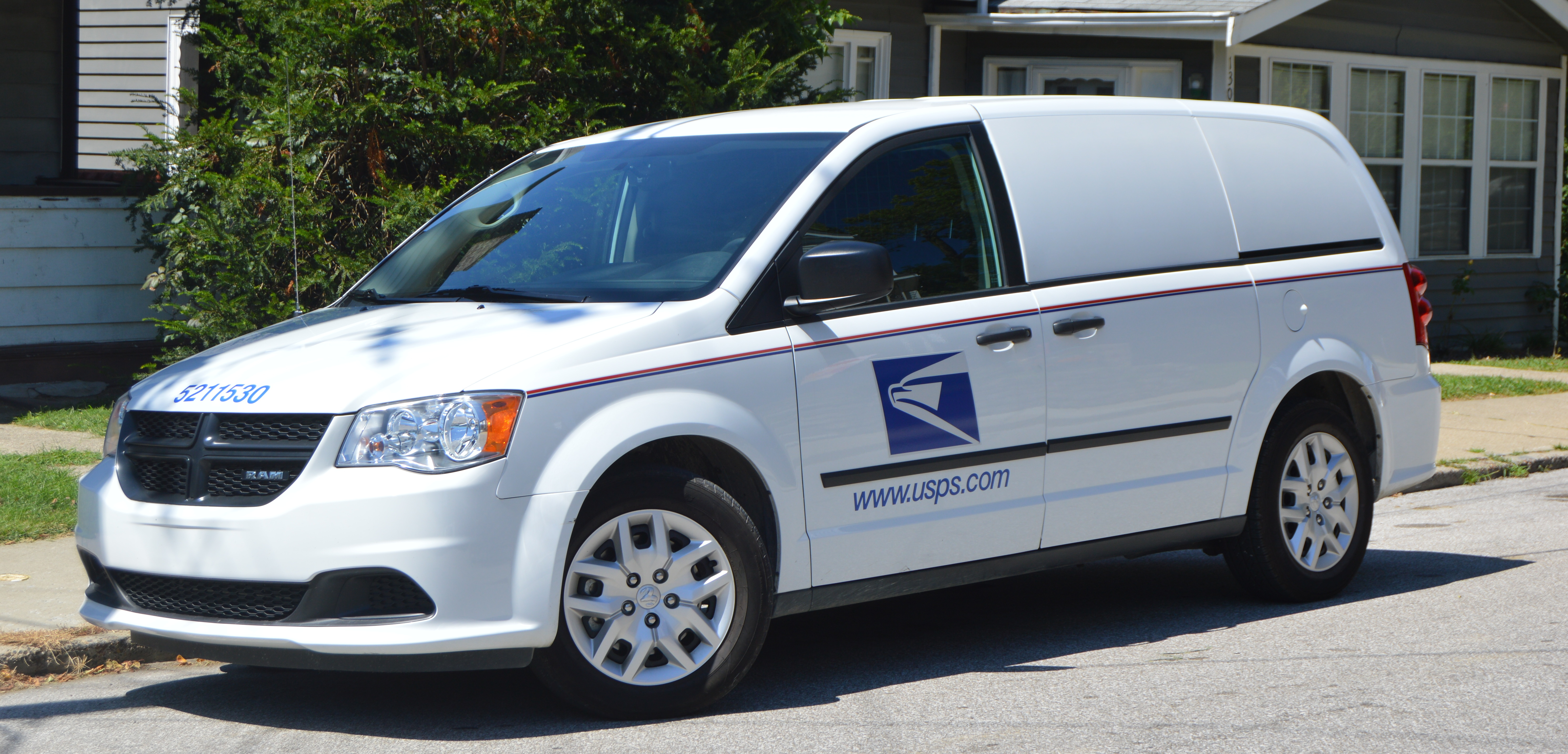 A United States Postal Service minivan (apparently replacing the Grumman LLV) sitting at the junction of Parkway Avenue and High Street in Covington, Kentucky, United States.